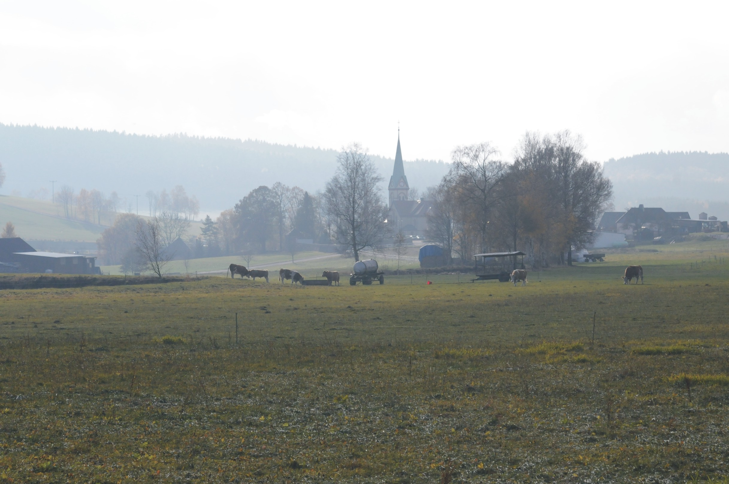 View of Wildenau, municipality Steinberg (Saxony, Germany)